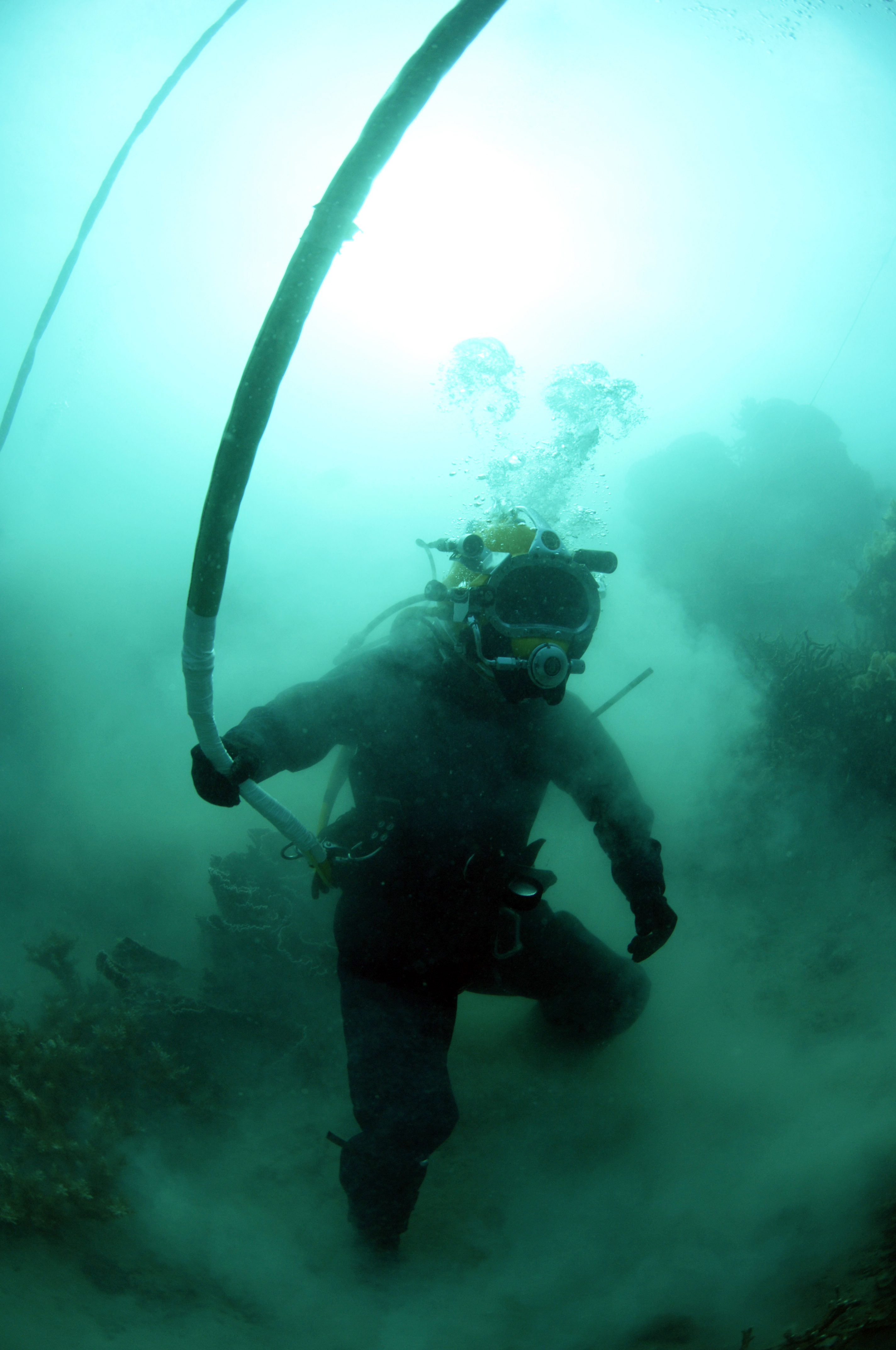 Deep sea divers assigned to Mobile Diving Salvage Unit (MDSU) 1, deployed with Joint POW/MIA Accounting Command (JPAC), search the crash site of a WWII military aircraft for the remains of fallen service members near Palau.